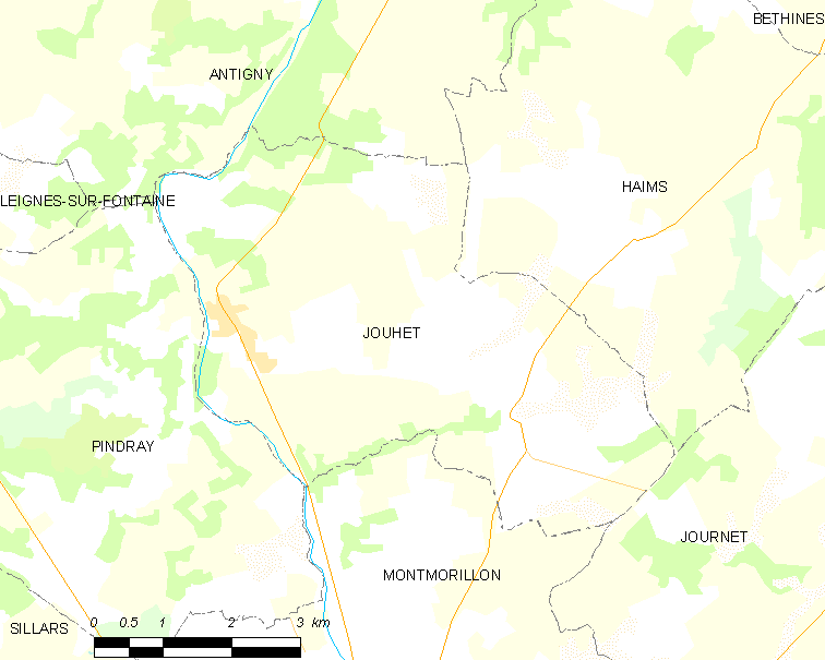 Map of French municipality Jouhet